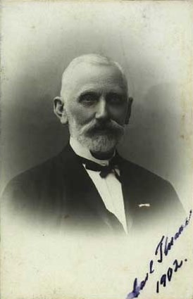 Wildenrath Christian Carl Boeck Thrane (1837-1916), Danish historian of music and jurist